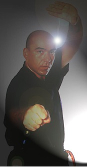 a personal photo of mine